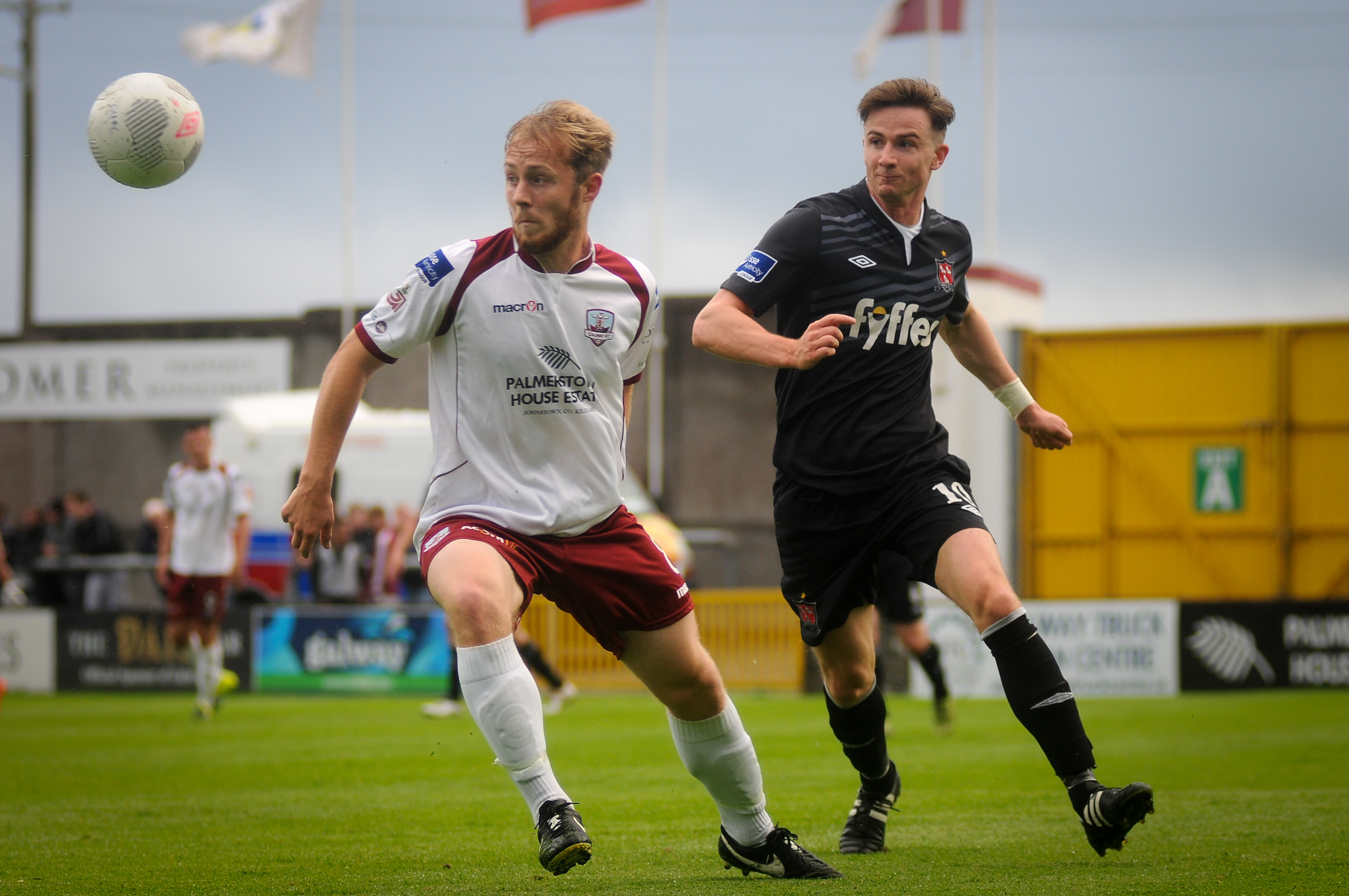 David O'Leary of Galway United and Ronan Finn of Dundalk in action in the 2015 League of Ireland